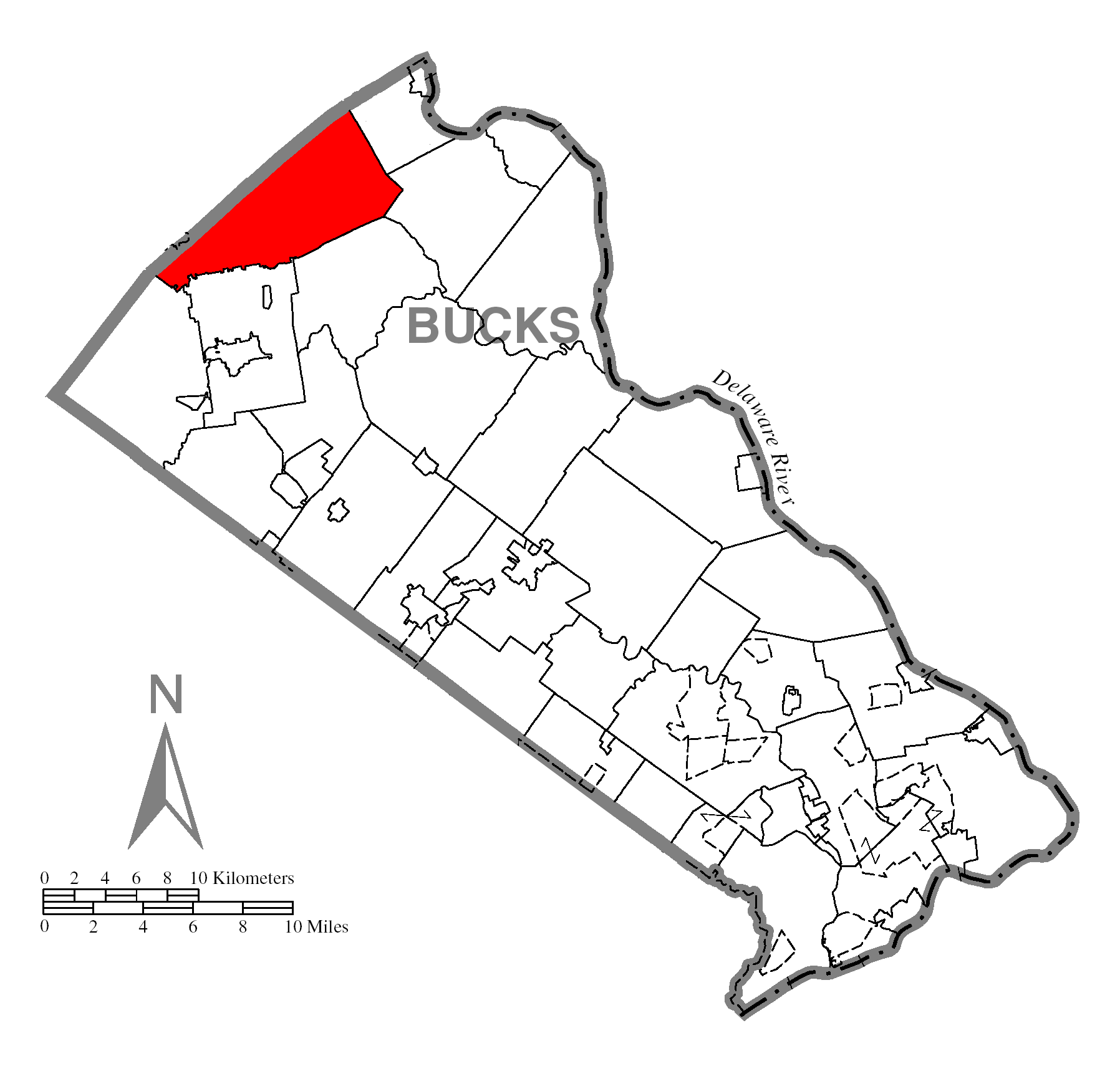 A map of Bucks County showing Springfield Township, Pennsylvania (alternate) highlighted on the map.